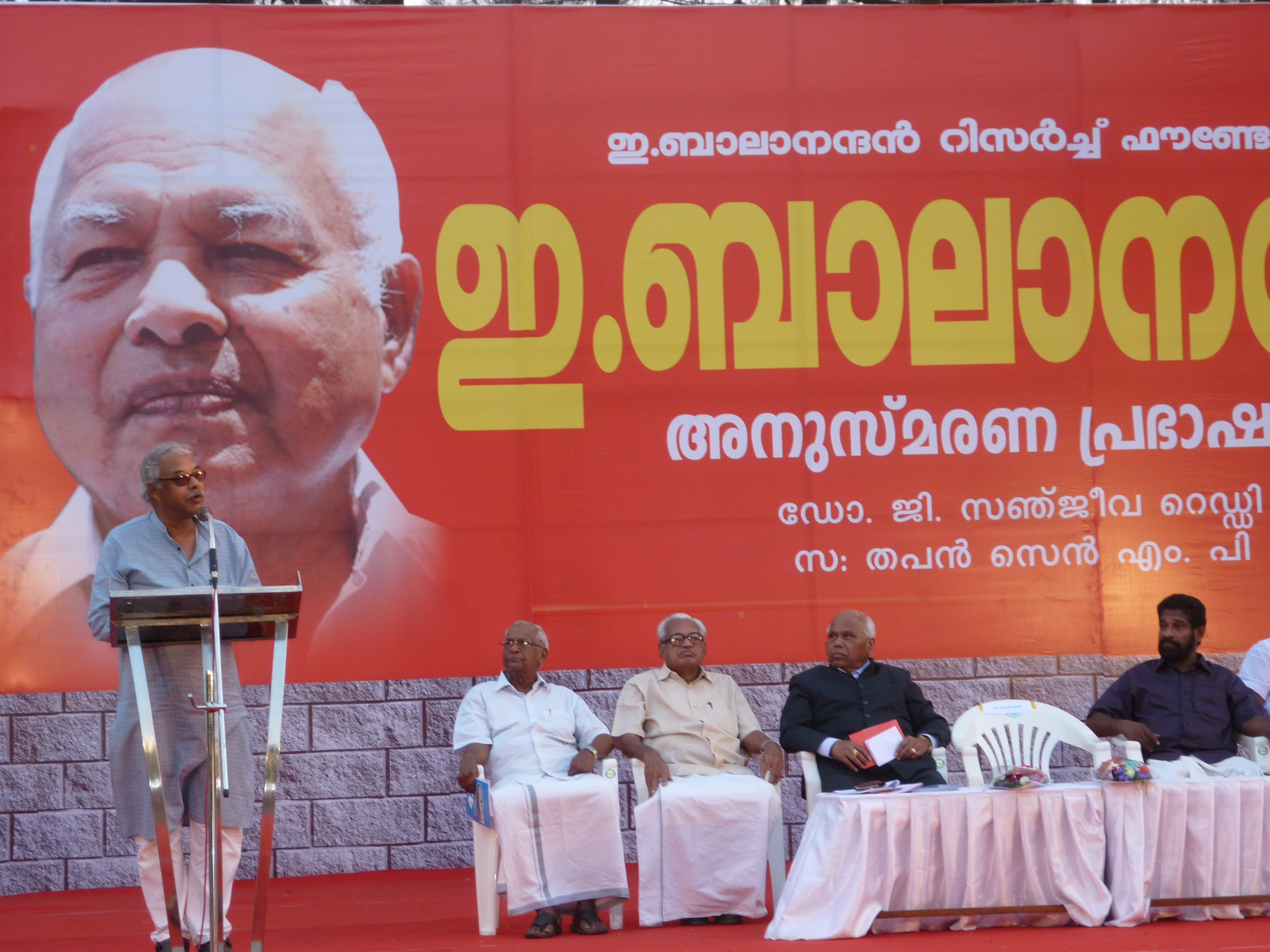 Ebalanandan memorial speech